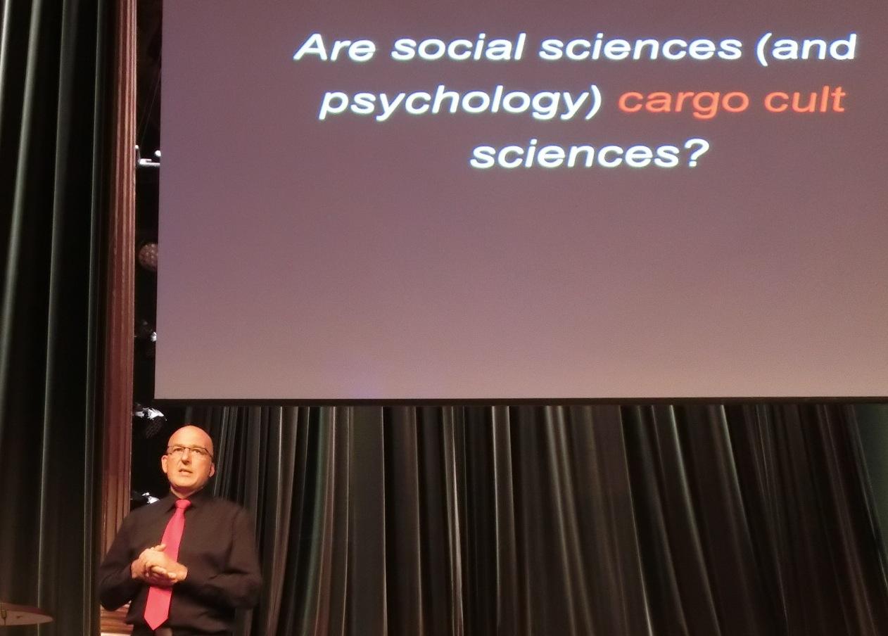 Tomasz Witkowski during his lecture at the 15th European Skeptics Congress, Stocholm, 2013.